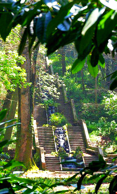 Fonte Fria in Bussaco Forest, Portugal